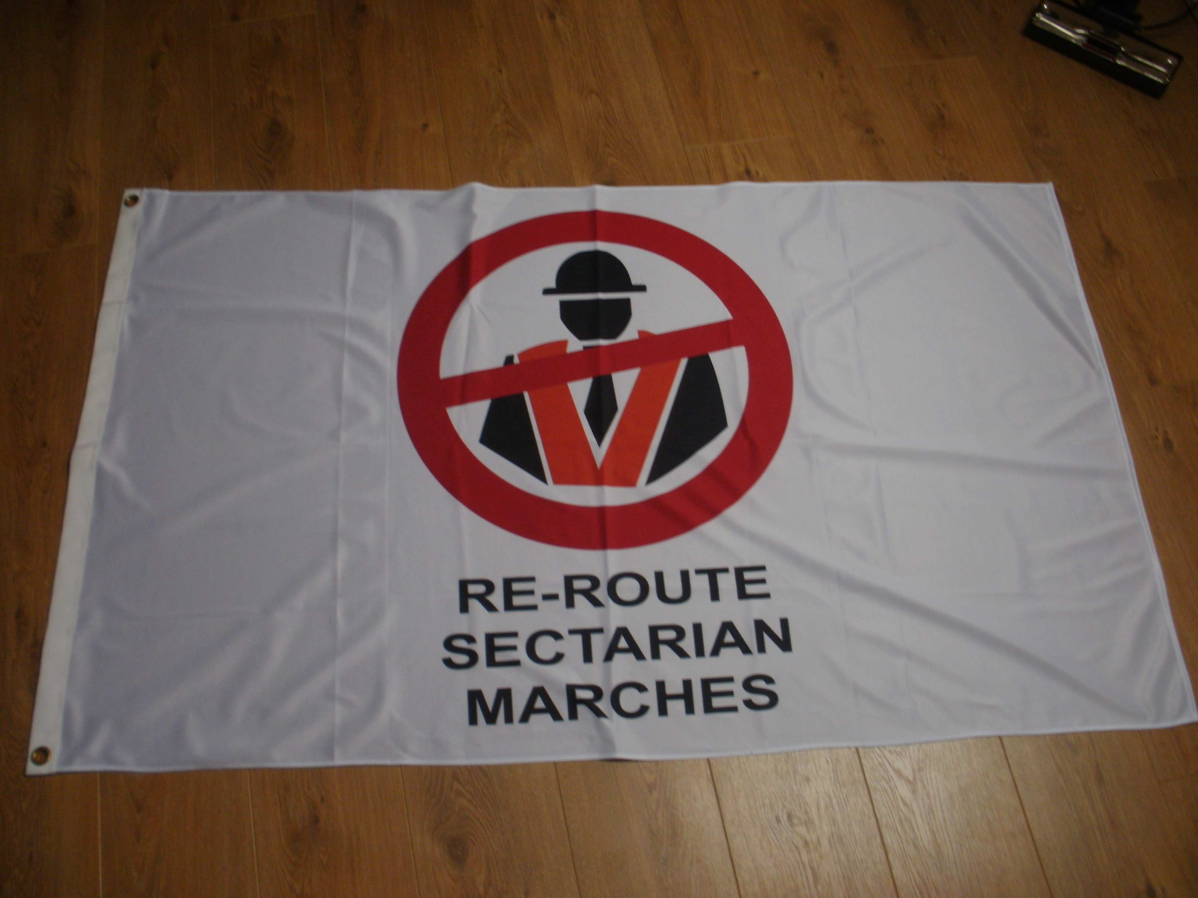 A flag displaying opposition to the Protestant fraternal organisation, the Orange Order.